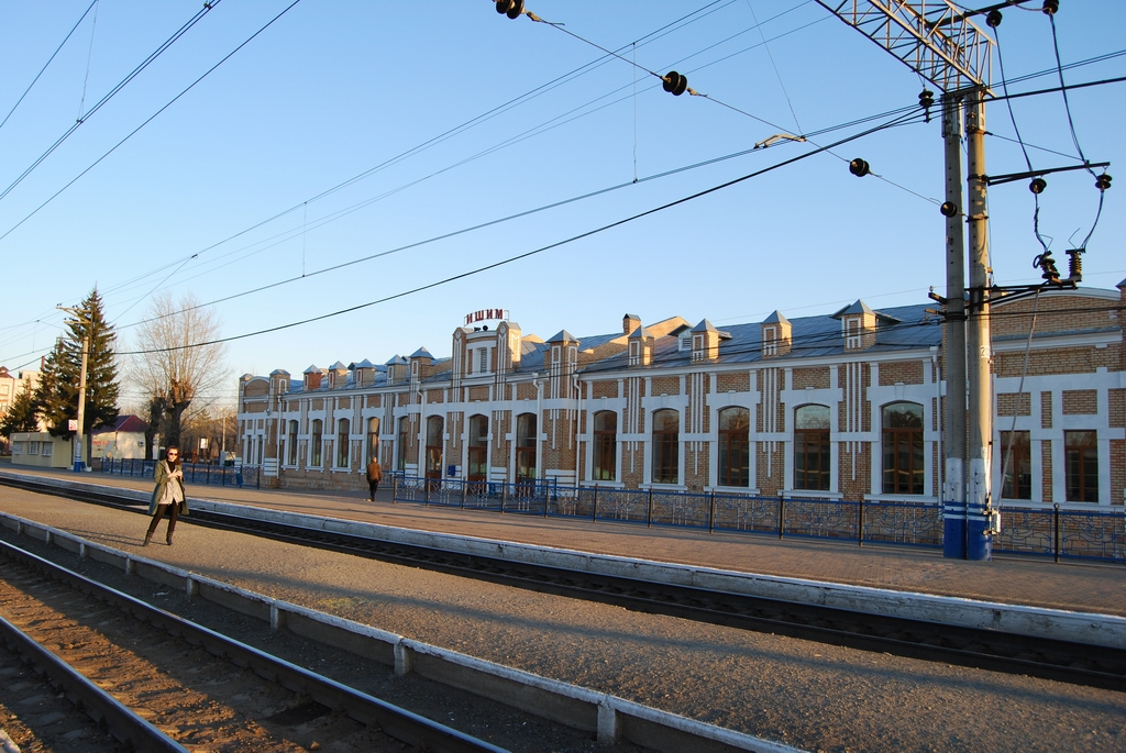 ЖД вокзал